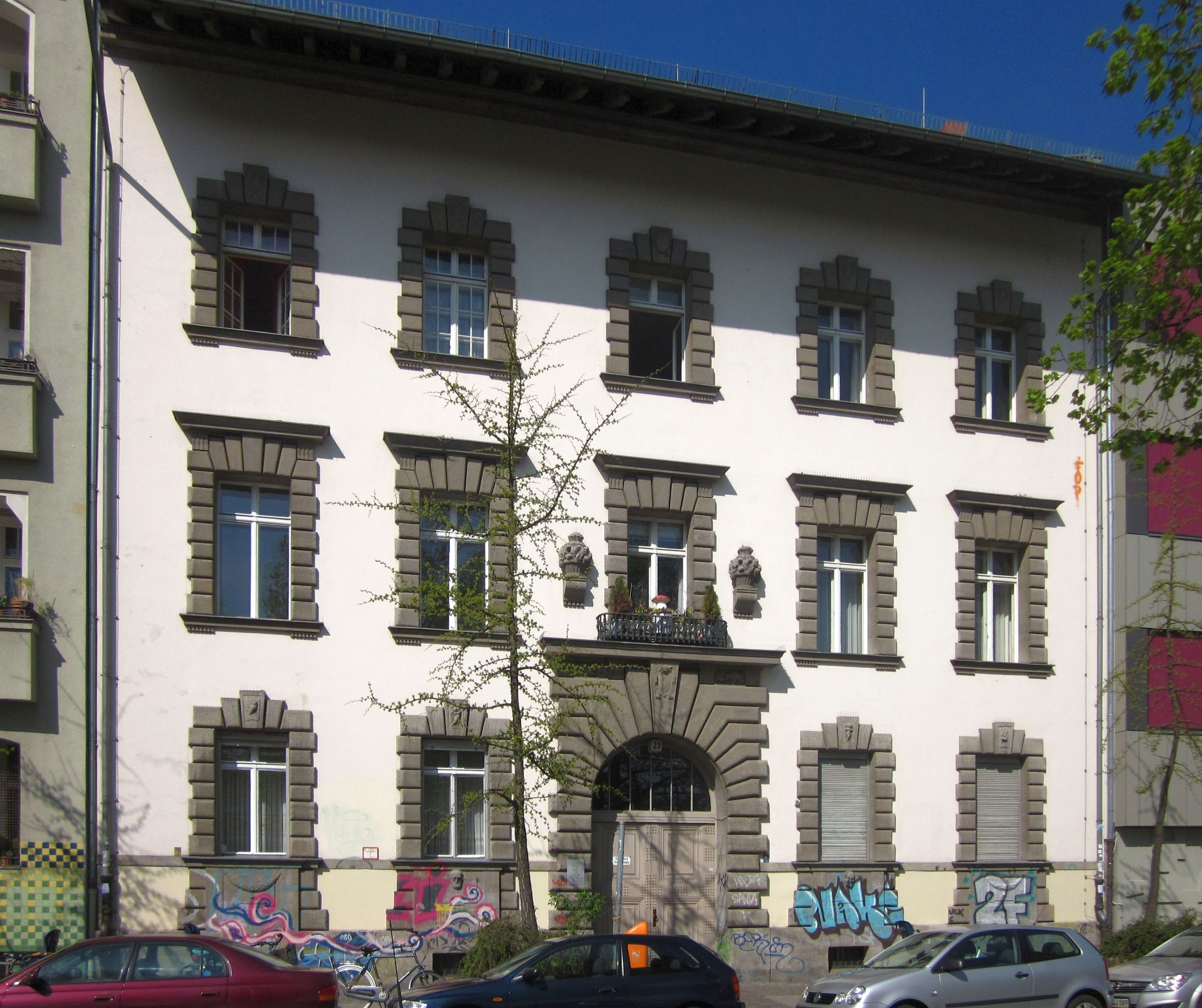 Former principal residence at the complex of Leibniz-Oberschule at Schleiermacherstraße No. 23 in Berlin-Kreuzberg. The school located between Mittenwalder Straße and Schleiermacherstraße was built from 1904 to 1906 to a design by Ludwig Hoffmann as Friedrichs-Realgymnasium. The school has been designated a historic landmark.